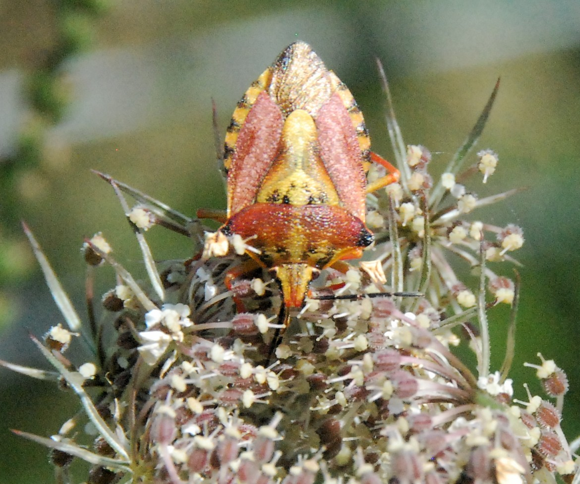 Orange bedbug in Irurita, Nafarroa, August 2019